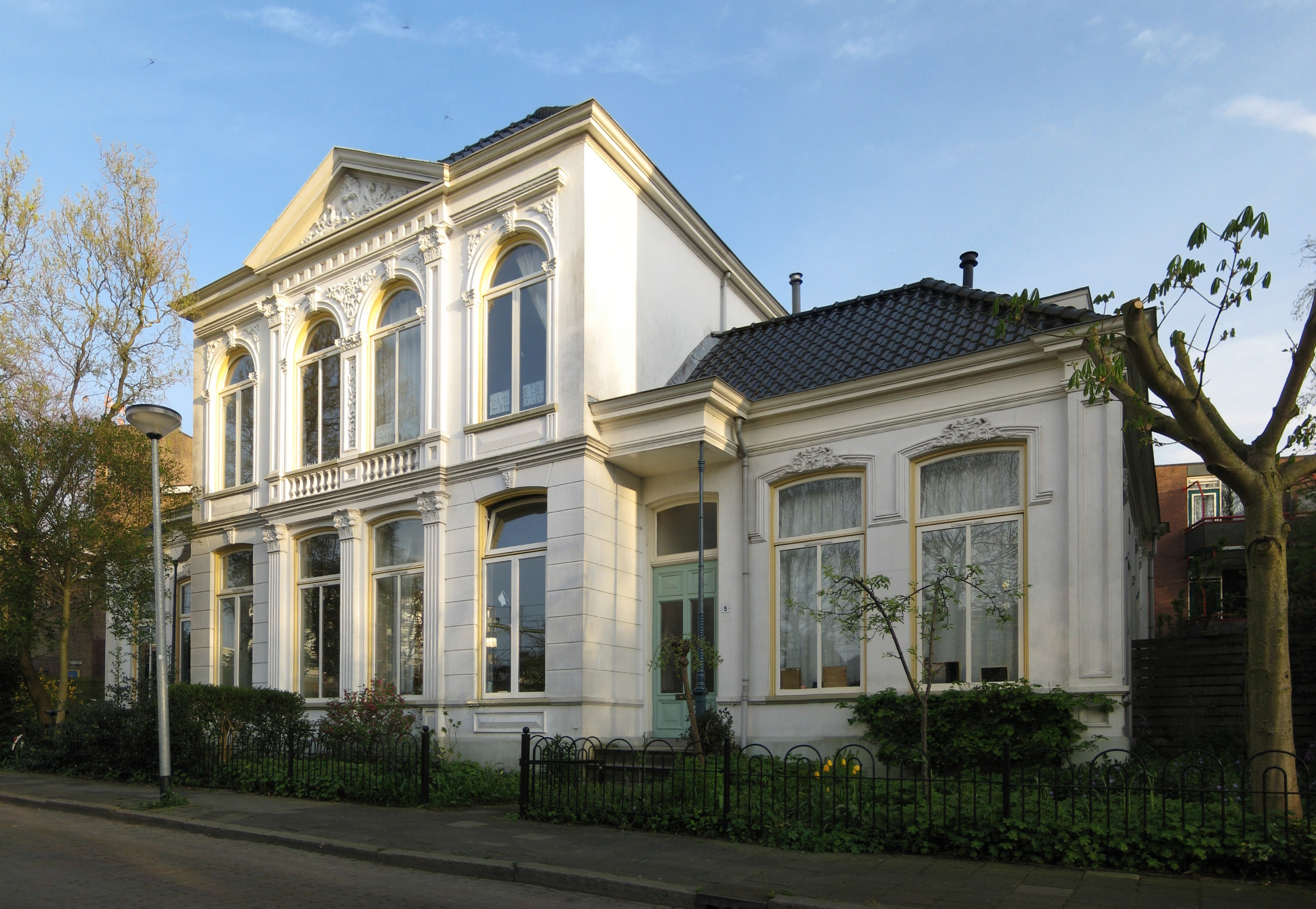 The Witte Huis (1882) in the Dutch city of Groningen, designed by the Dutch architect N.W. Lit (±1834-1907).